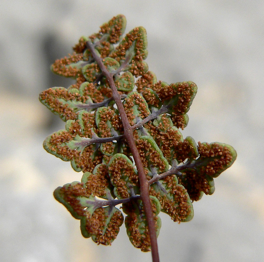 Argyrochosma jonesii next to the trail in the gully just west of Turtlehead Peak, Red Rock Canyon, southern Nevada